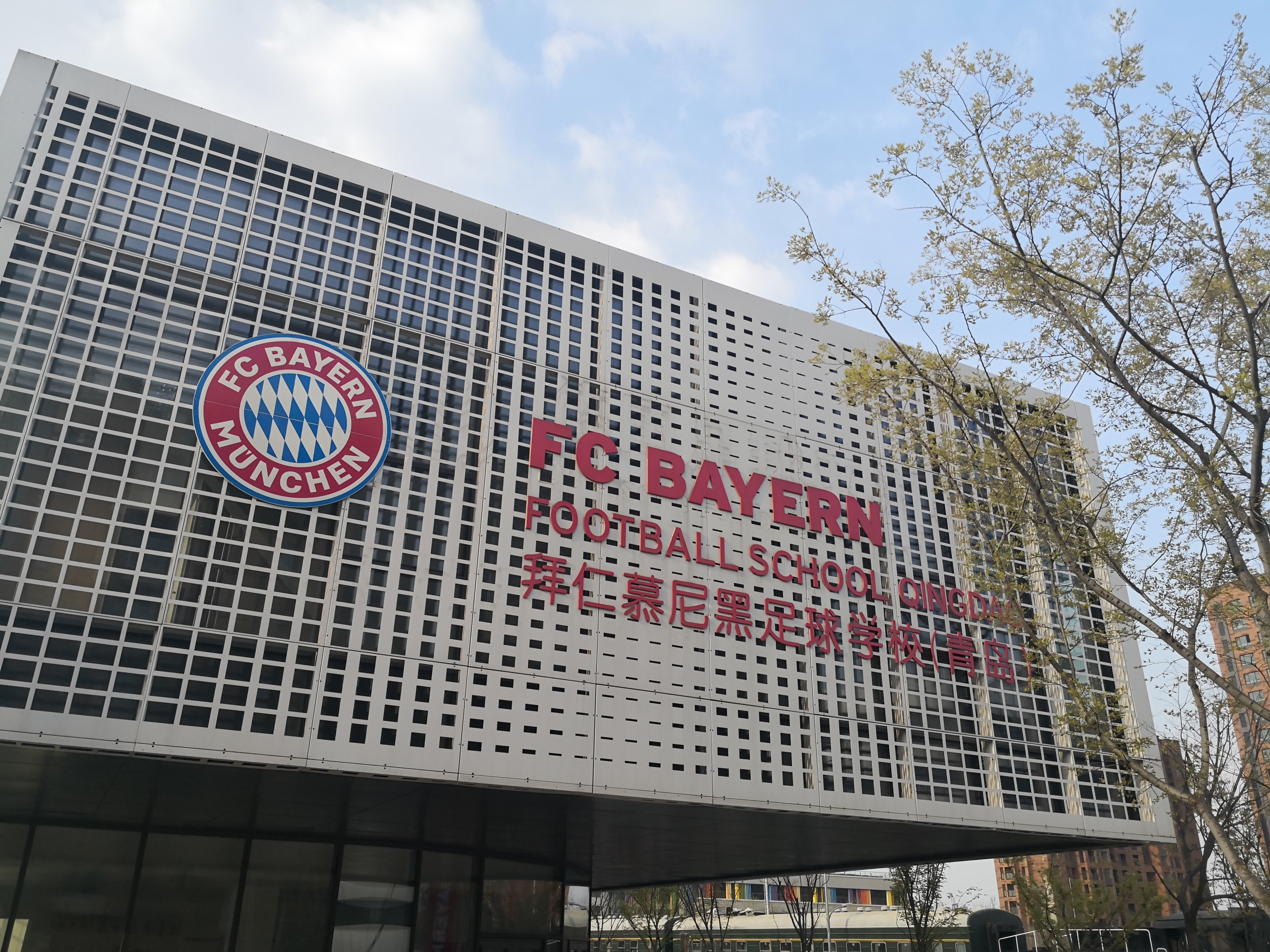 FC Bayern Football School Qingdao